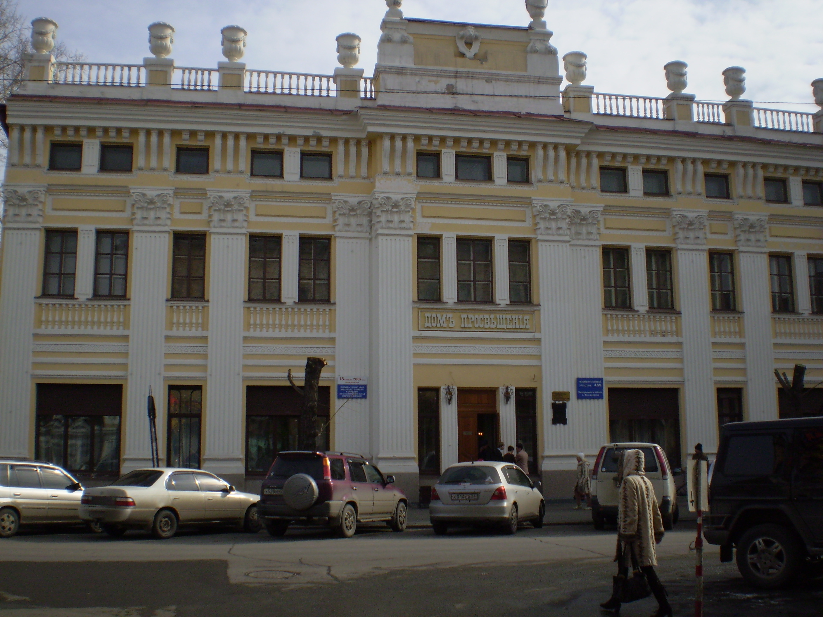 The House of Enlightenment, Kirov Street, 24, Krasnoyarsk